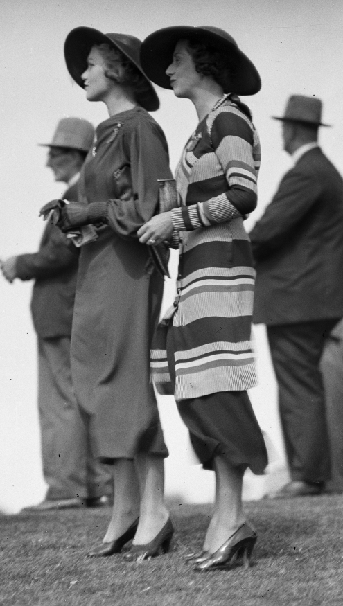 Women attending the race at Warwick Farm Racecourse in Australia 1934